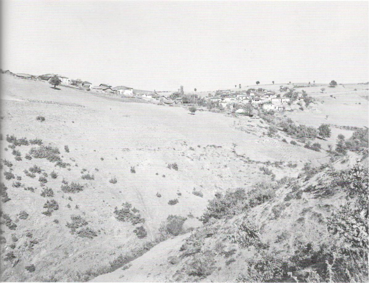 Historical photography of the village of Strmaševo, Macedonia